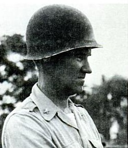 Francis William Farrell as commander of the Korean Military Advisory Group